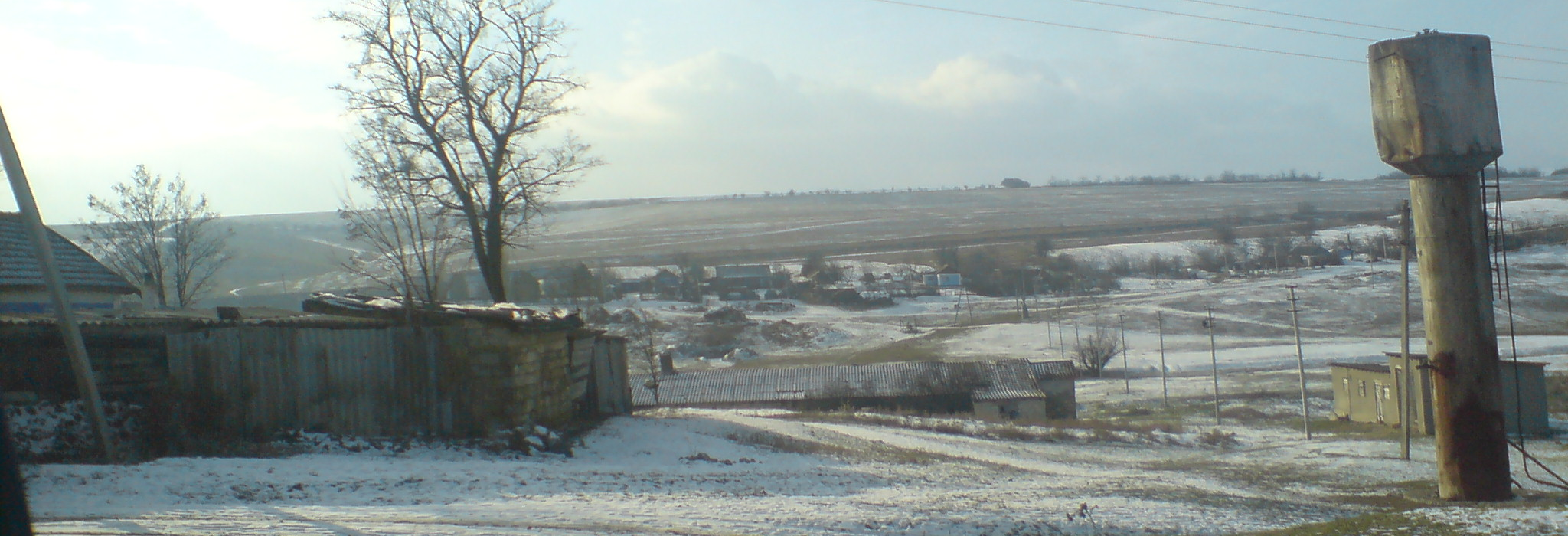 Druzhelubivka